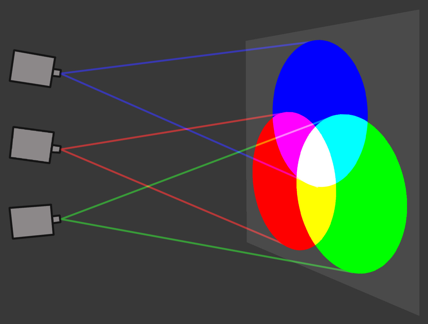 Beams of green, red, and blue colors projected on a white screen (in a dark room) produce, where superimposed, magenta, cyan, yellow, and white.